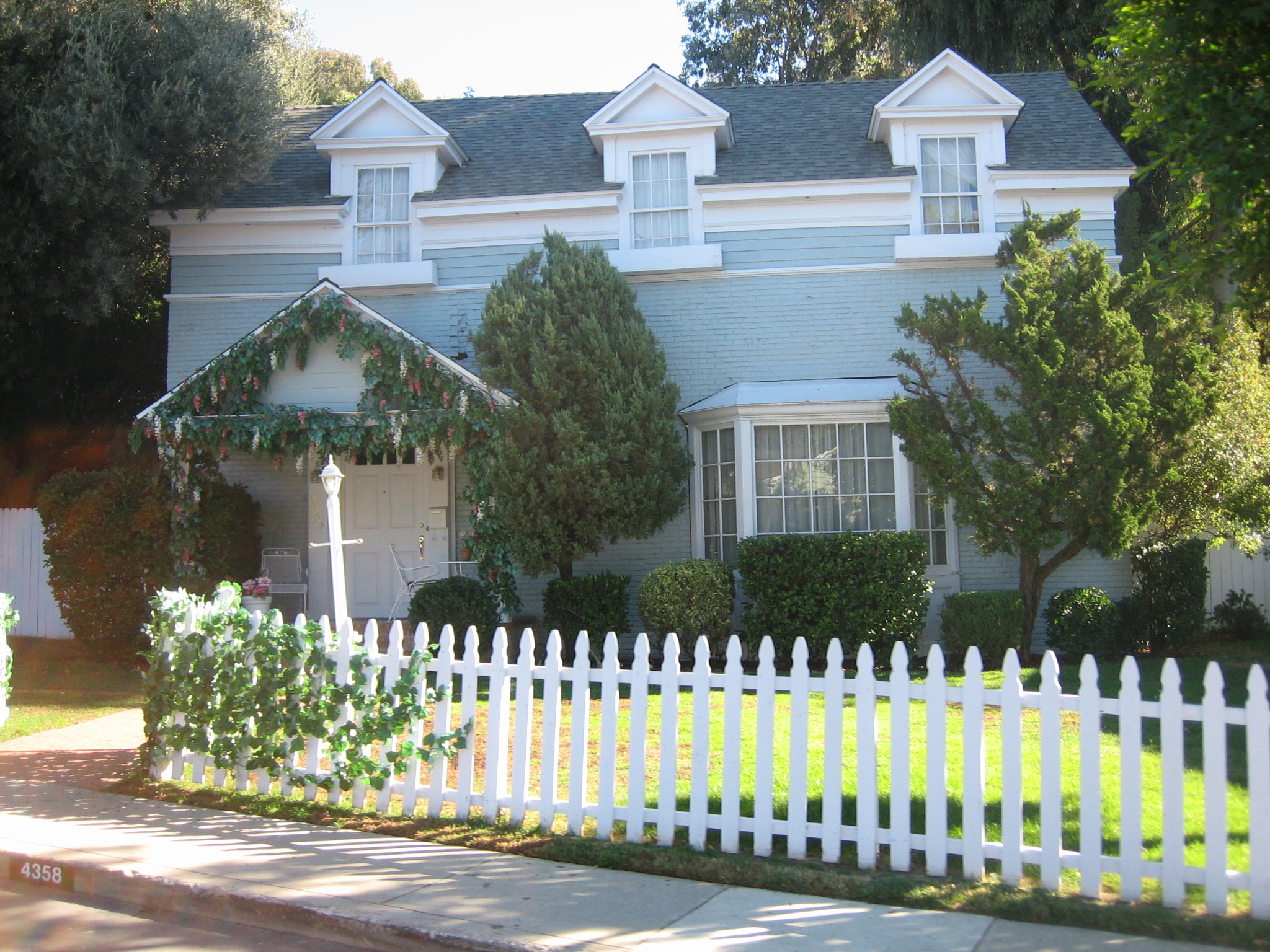 This house has been destroyed in 2007 for the purposes of Desperate Housewives. In the TV show, the house was located on 4358 Wisteria Lane and occupied by Karen McCluskey (Kathryn Joosten).